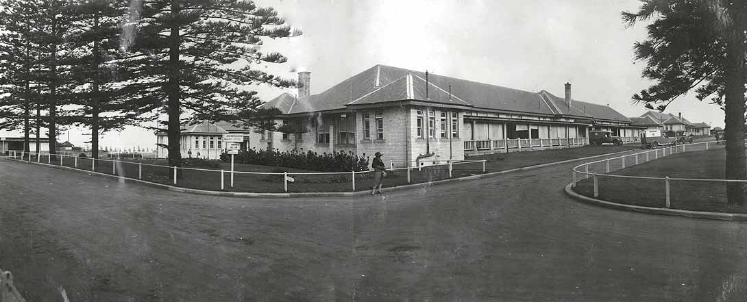 Portion of Coast Hospital (Prince Henry Hospital) known as "The Flowers Hospital" at Little Bay - admission ward Dated: No date Digital ID: 4346_a020_a020000191 Rights: We'd love to hear from you if you use our photos/documents. Many other photos in our collection are available to view and browse on our website using Photo Investigator.